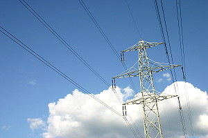 An Image of an electricity pylon in front of the blue sky taken without a polarization filter to show it's effect.See File:Overhead power line-electricity pylon - with polarization filter.JPG for the image taken with a polarization filter.